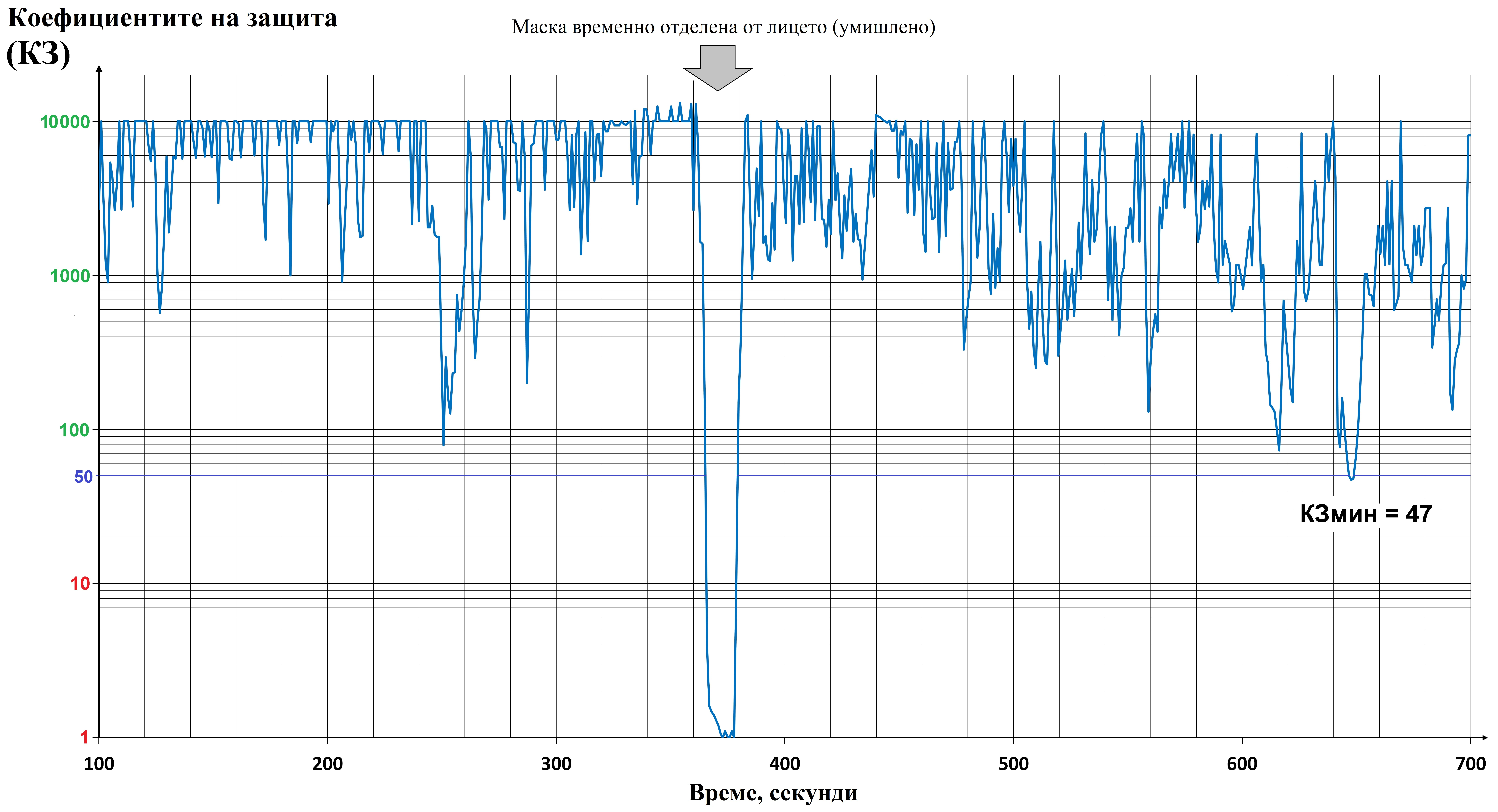 Workplace Protection Factors of Negative Pressure Respirator with Full Facepiece and Effective Filters (used together with isolated garment with hood).